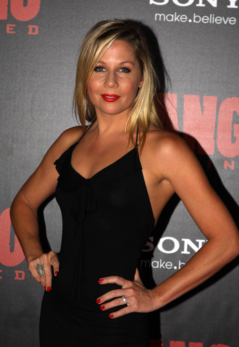 Actress Gigi Edgley at the Django Unchained movie premiere in Sydney, Australia on the 21st January 2013